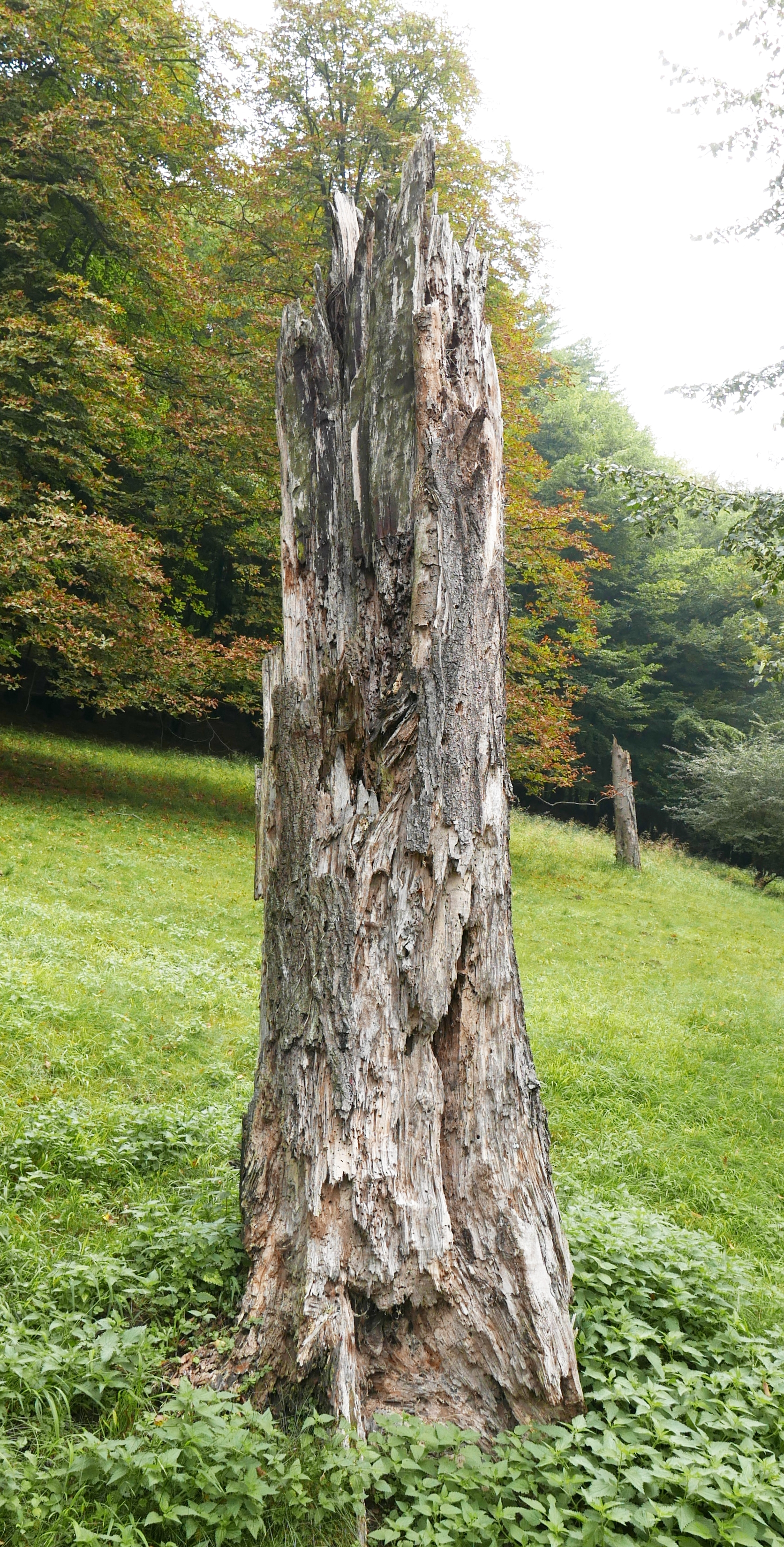 rotten wood